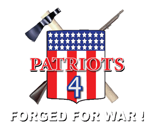 4th BCT Crest during it's time of active time 2005-2015